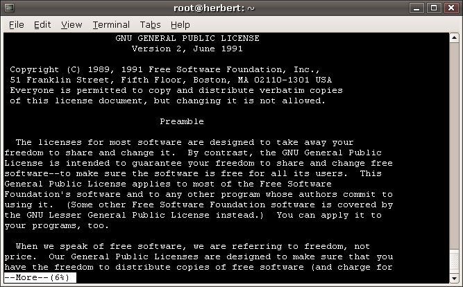 A screenshot of a terminal displaying output of the more command. It is currently outputting the GPL in plain-text format. This screenshot was taken by Andewulfe (Wikipedia user), under Ubuntu 6.06, and cropped with GIMP.